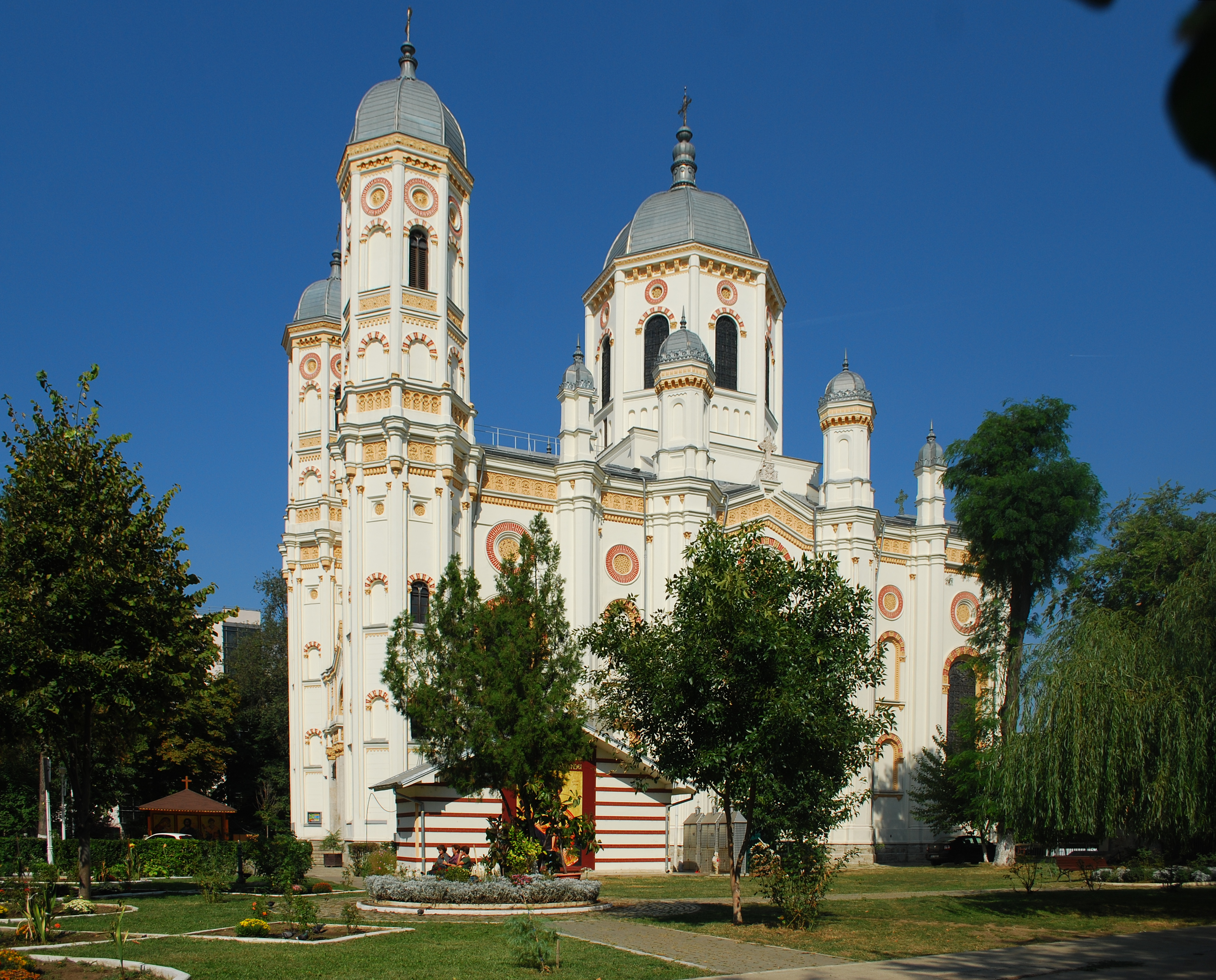 New Saint Spyridon's church in Bucharest, RomaniaRomână: Biserica Sfântul Spiridon Nou din București, România